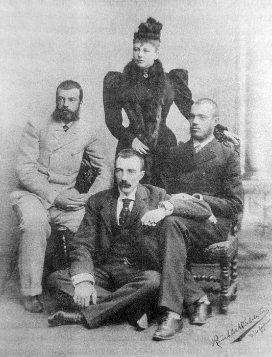 Grand Duke Mikhail Mikhailovich, Countess Sofia Nikolaevna, Grand Duke Alexander Mikhailovich, Grand Duke Sergei Mikhailovich